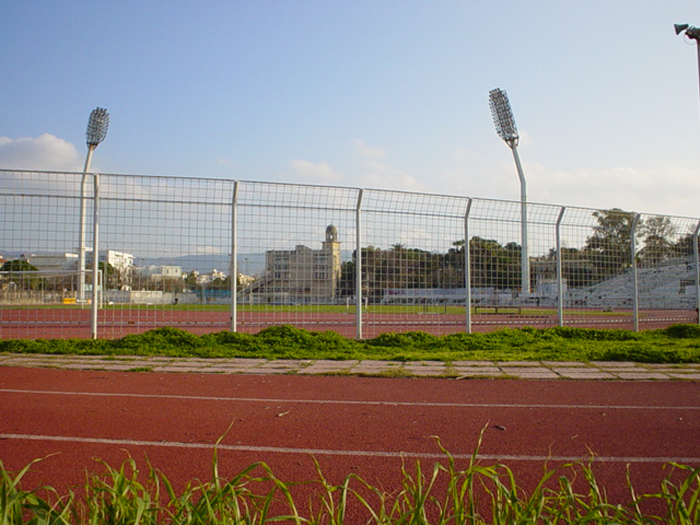 Taken by myself in Crete.